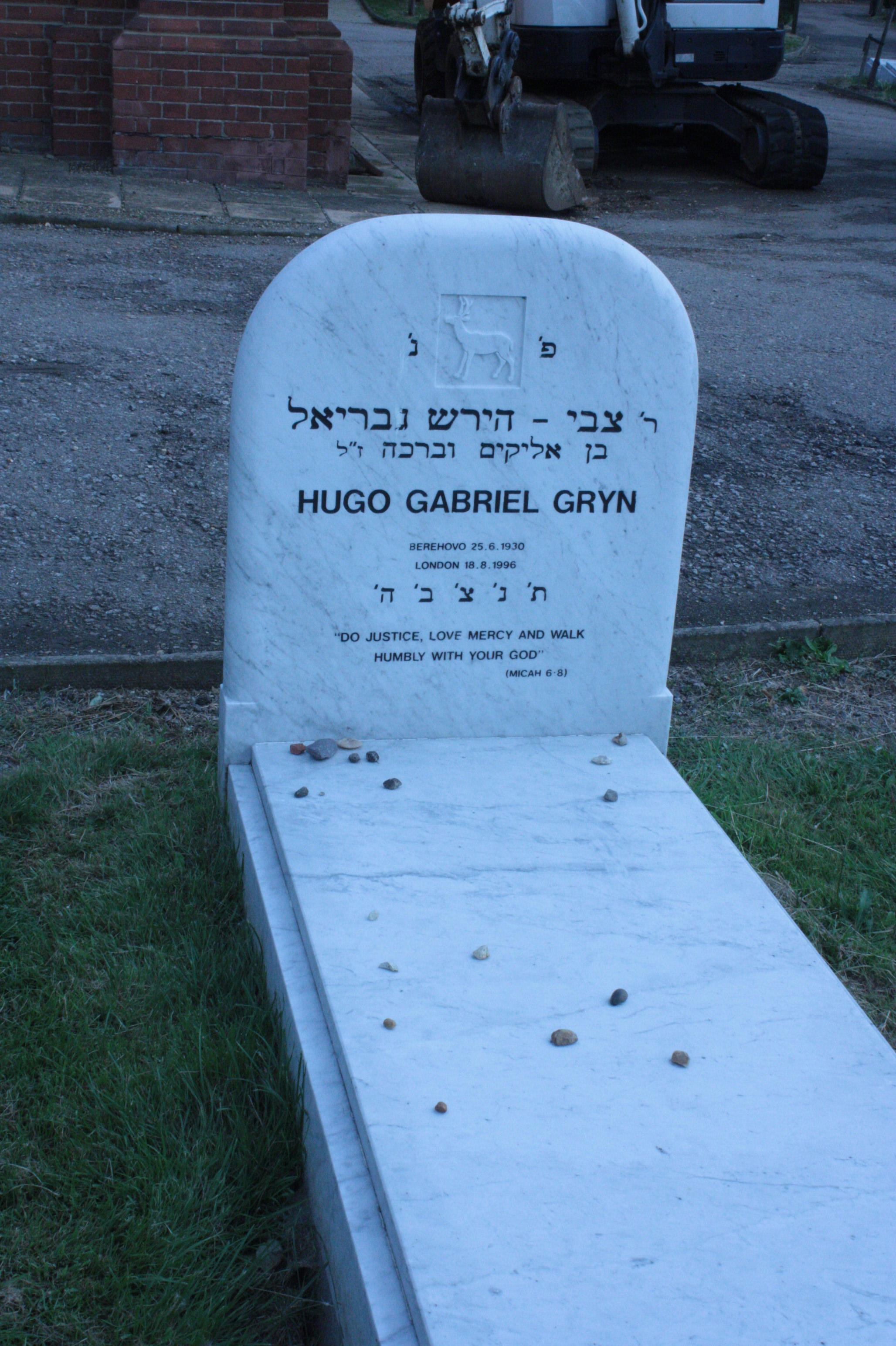 Hugo Gryn's grave, Golders Green, London